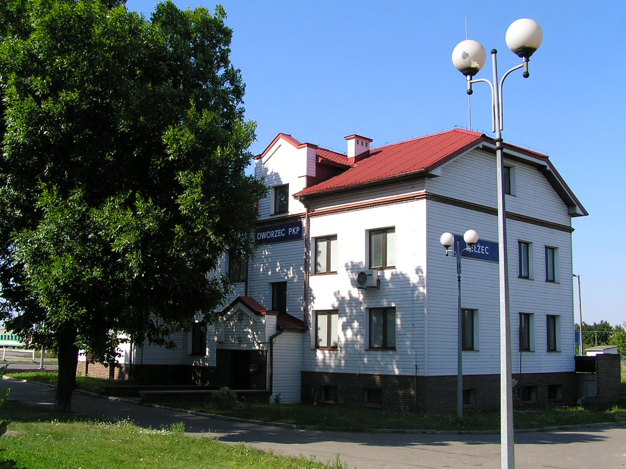 autor: Yarek shalom 20:52, 25 October 2006 (UTC)yarek shalom